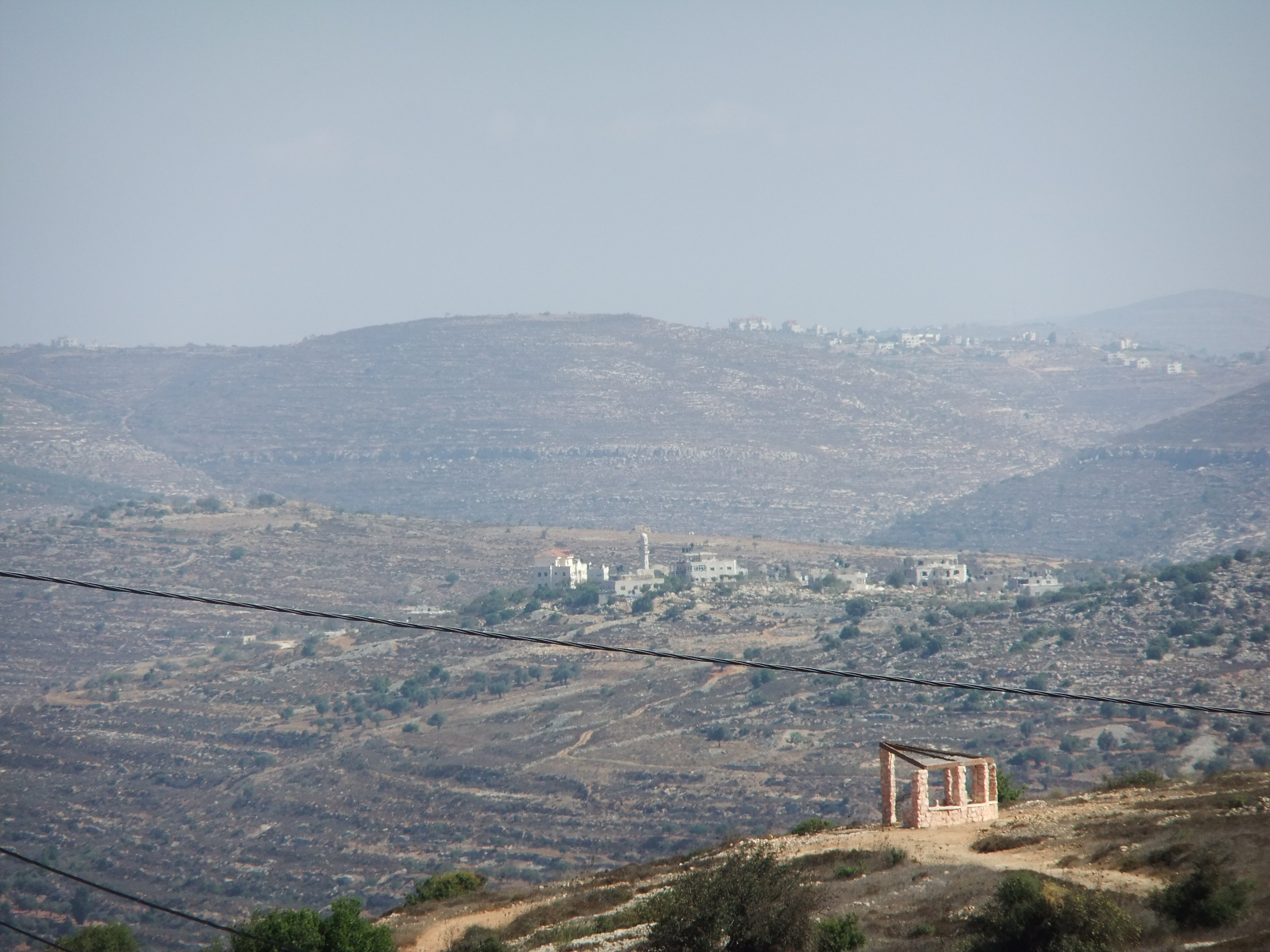 Yabrud, Ramallah taken from the Artis mountain in Beit el (from the south). Up on the mountain seems to be Al-Mazra'a ash-Sharqiya